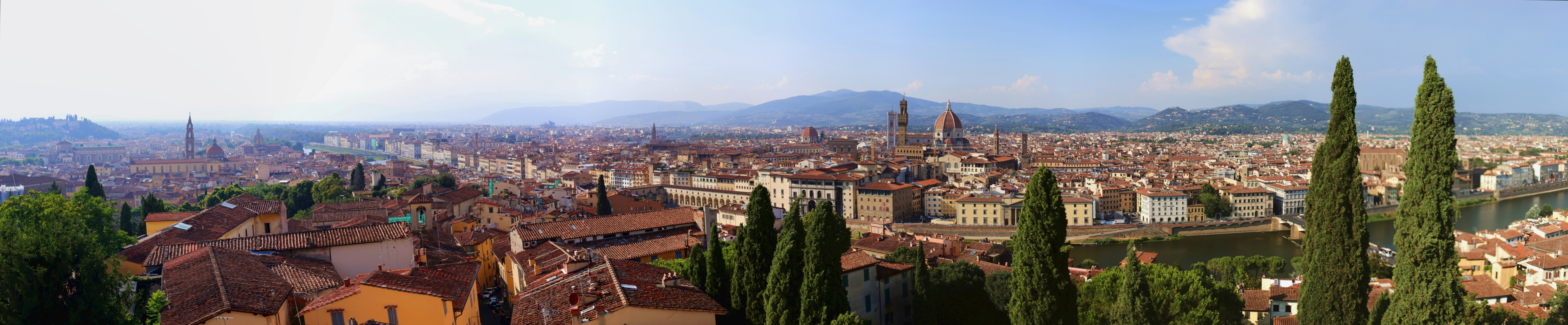 Panorama composite, overview of Firenze, taken from the Giardino Bardini viewpoint.